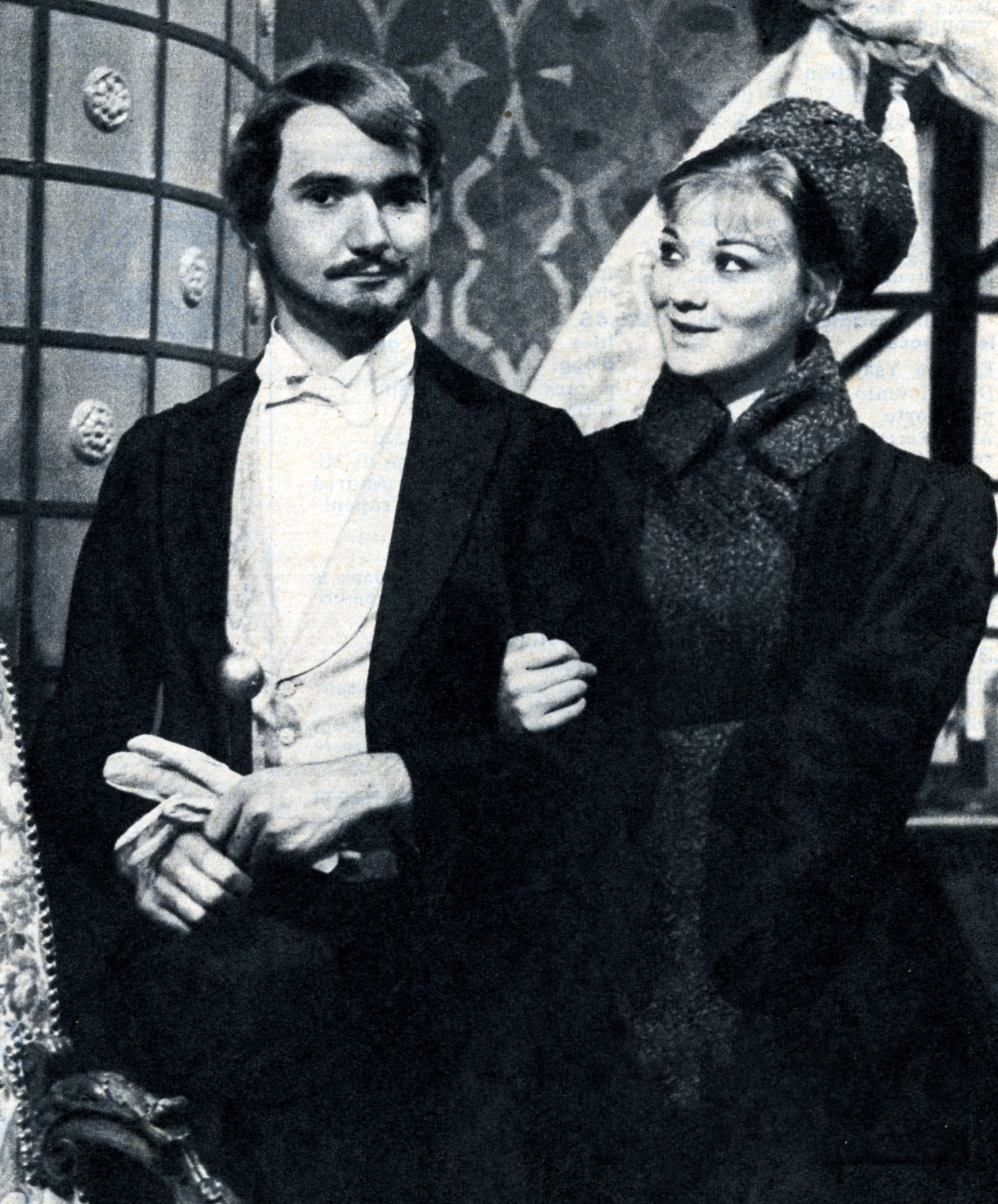 Photo from the Italian magazine Radiocorriere (1963)